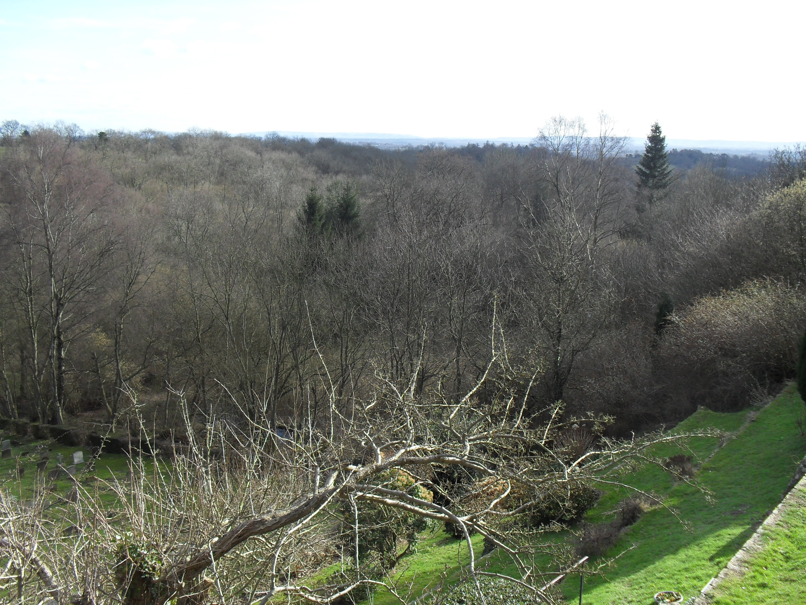 St Margaret's Church, West Hoathly, district of Mid Sussex, West Sussex, England. An Anglican church founded in the 11th century. Listed at Grade I by English Heritage (IoE Code 302844). This view looks from the upper level of the terraced churchyard.